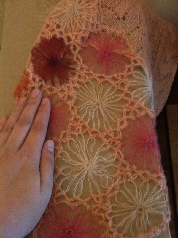 Mohair lace crocheted scarf detailed photo